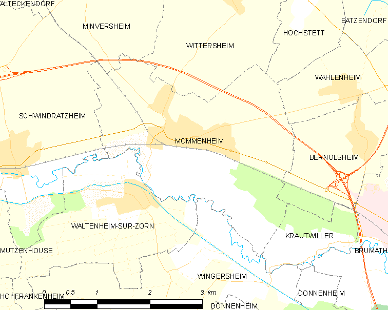 Map of French municipality